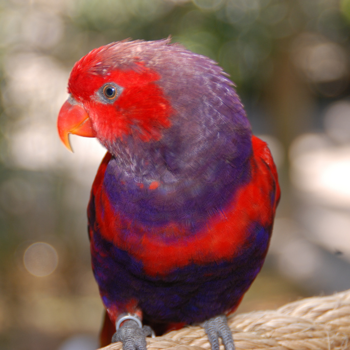 Violet-necked Lory at Busch Gardens Aviary, Tampa, Florida, USA.